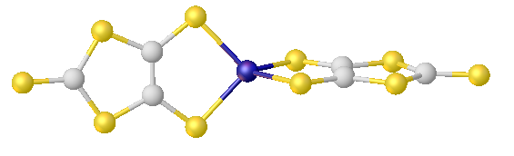 Structure of [Zn(dmit)2]2- from doi=10.1016/S0277-5387(00)00322-3